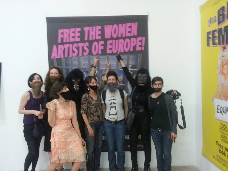 The French feminist feminist group La Barbe! are Guerrilla Girls at the Tokyo Palace